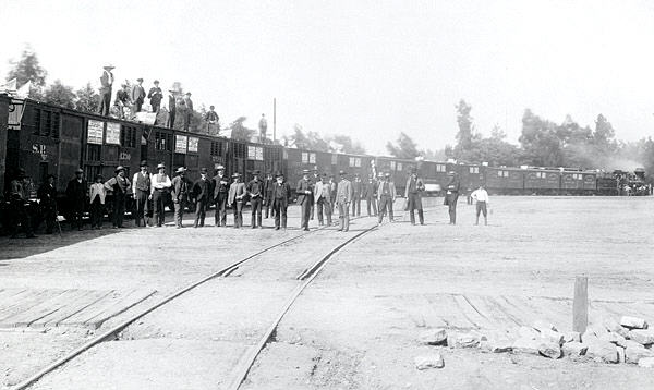 A special fast fruit leaving Central Pacific Railroad passenger station, June 24, 1886. This train was chartered by W. R. Strong & Co. and Edwin T. Earl, fruit packers and shippers, Sacramento. View is of west end of station. img URL